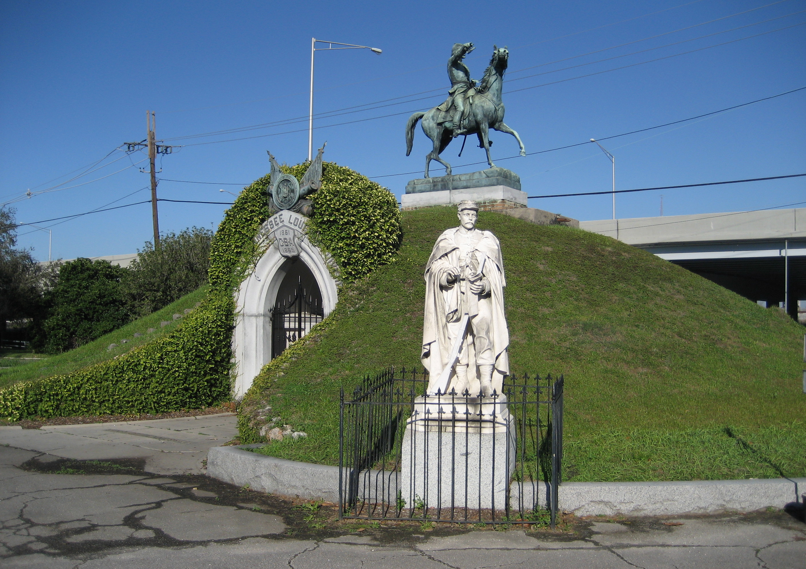 "Army of Tennessee" Civil War Veteran Monument, Metairie Cemetery, New Orleans